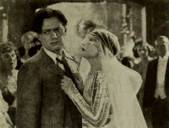 Still from the American film Fair Lady (1922) with Robert Elliott and Betty Blythe, on page 59 of the June 1922 Photoplay Magazine.